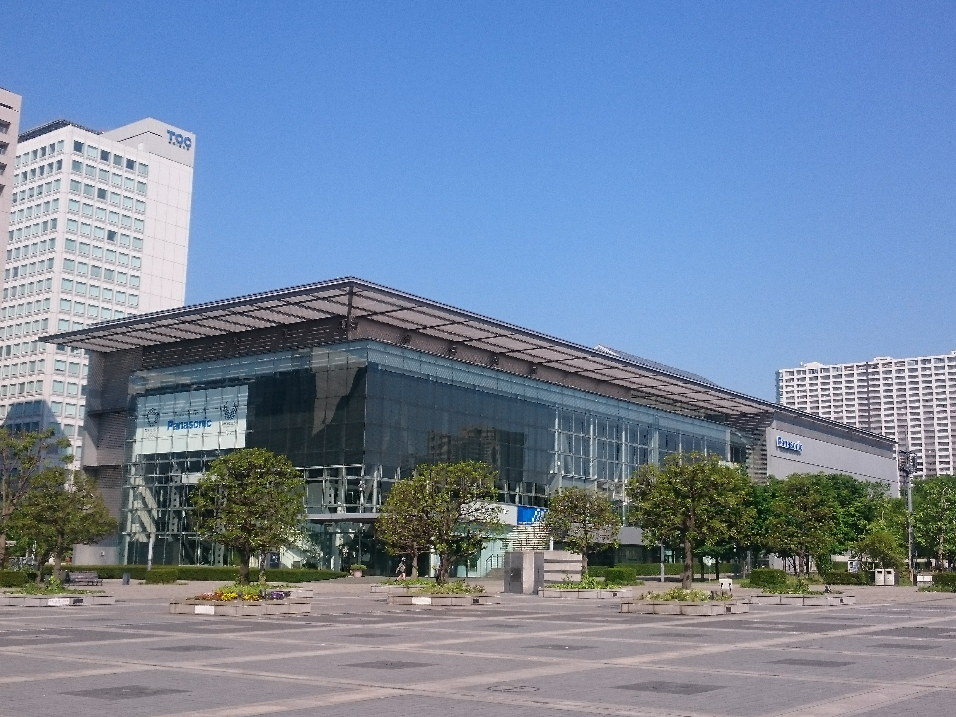 Panasonic Center Tokyo (パナソニックセンター東京), at 3-5-1 Ariake, Koto, Tokyo, Japan